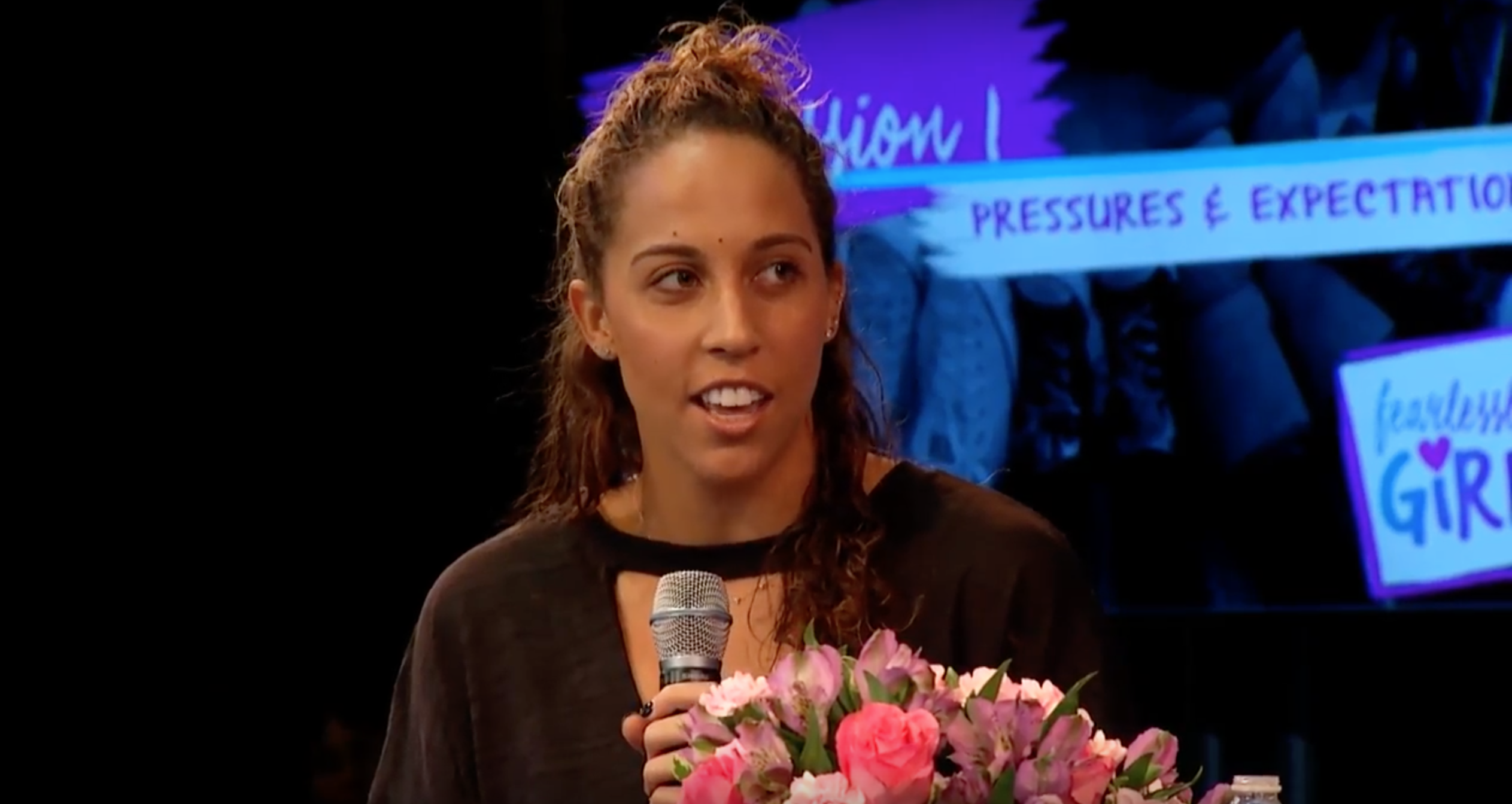 Madison Keys at a FearlesslyGirl summit